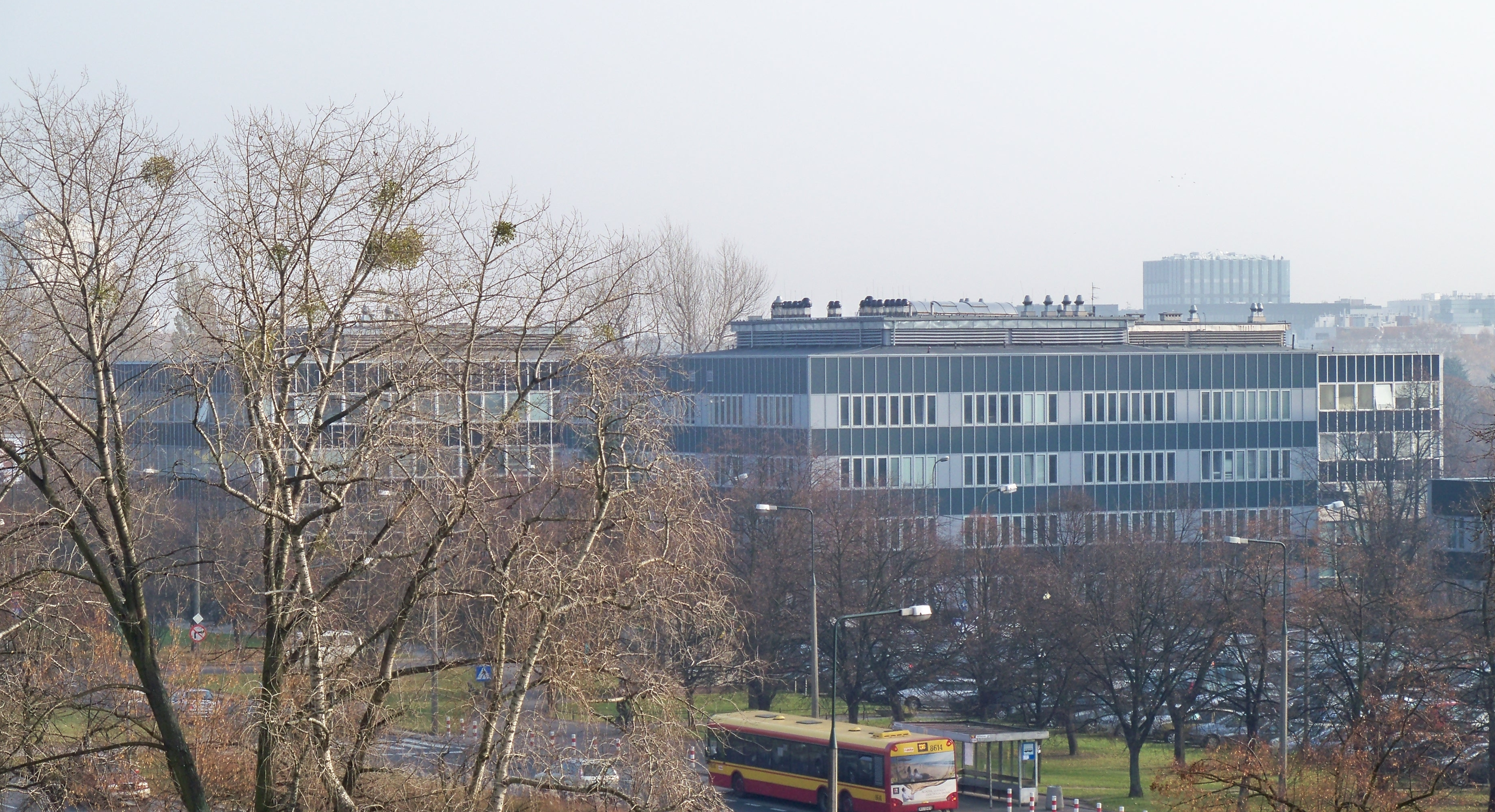 Faculty of Pharmacy building. Medical University of Warsaw.